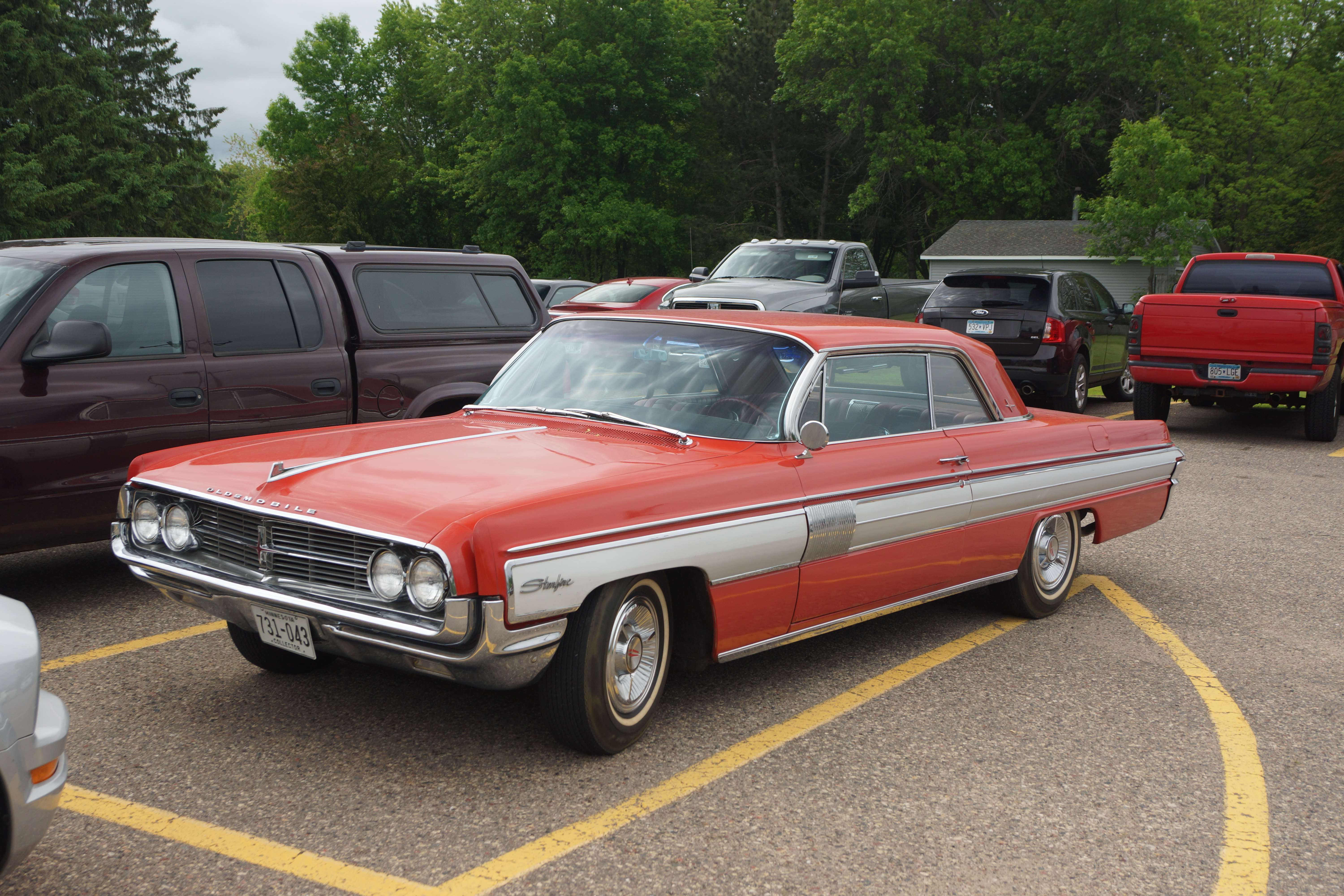 Studebaker Drivers Club North Star Chapter 43nd Annual 2017 Memorial Day Car Show Blacksmith Lounge Hugo, Minnesota